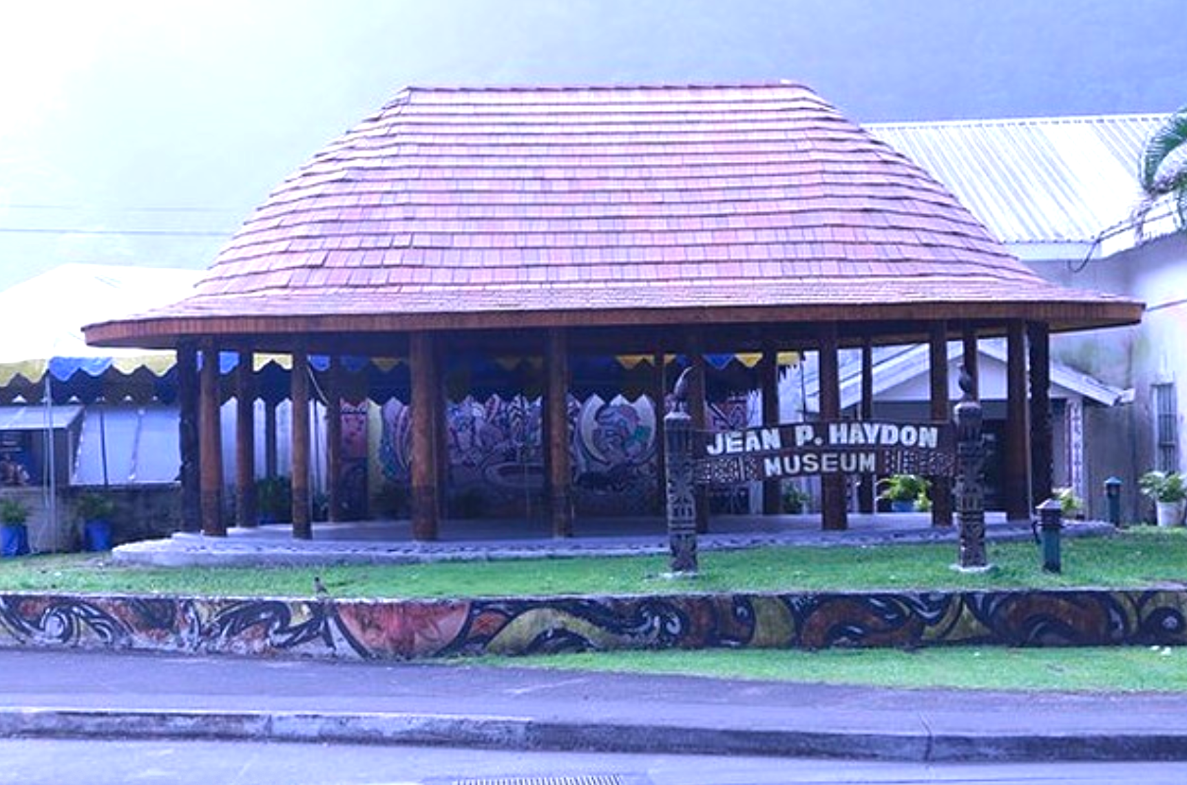 Jean P. Haydon Museum in Pago Pago, American Sāmoa